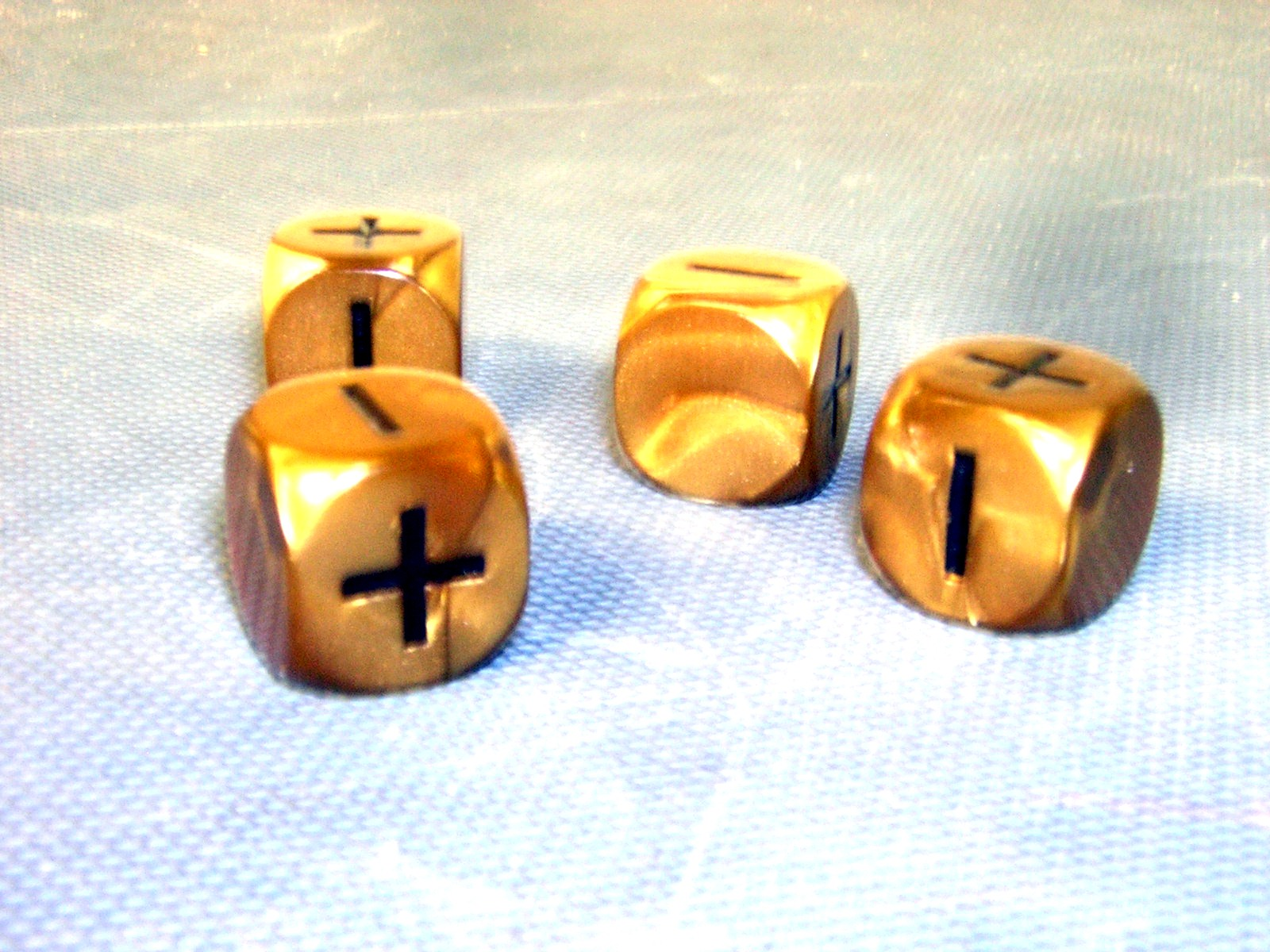 A picture of a set of fudge dice waiting to be used.